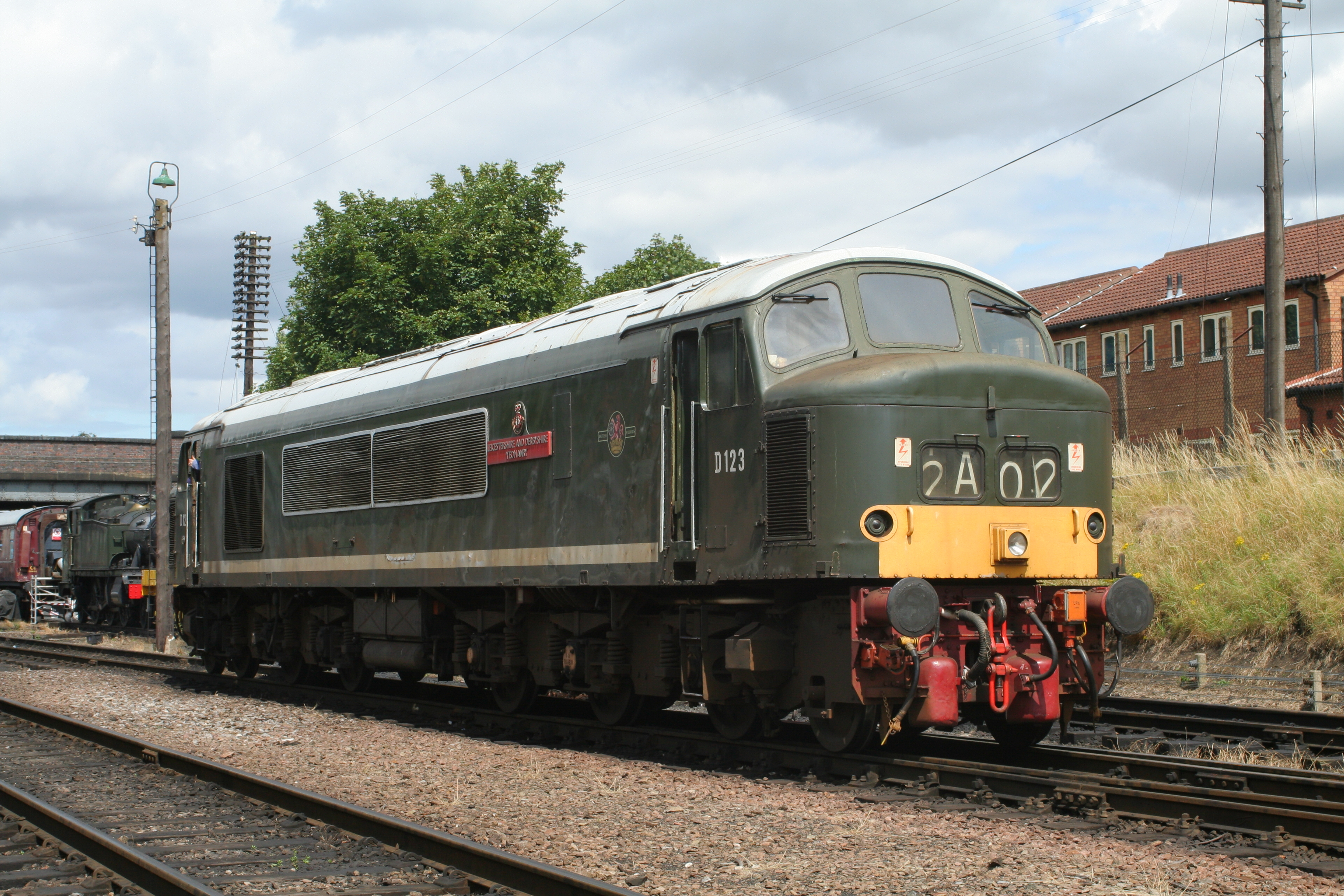 D123, with 4141 in background and a right at the back a buffet coach undergoing asbestos removal.